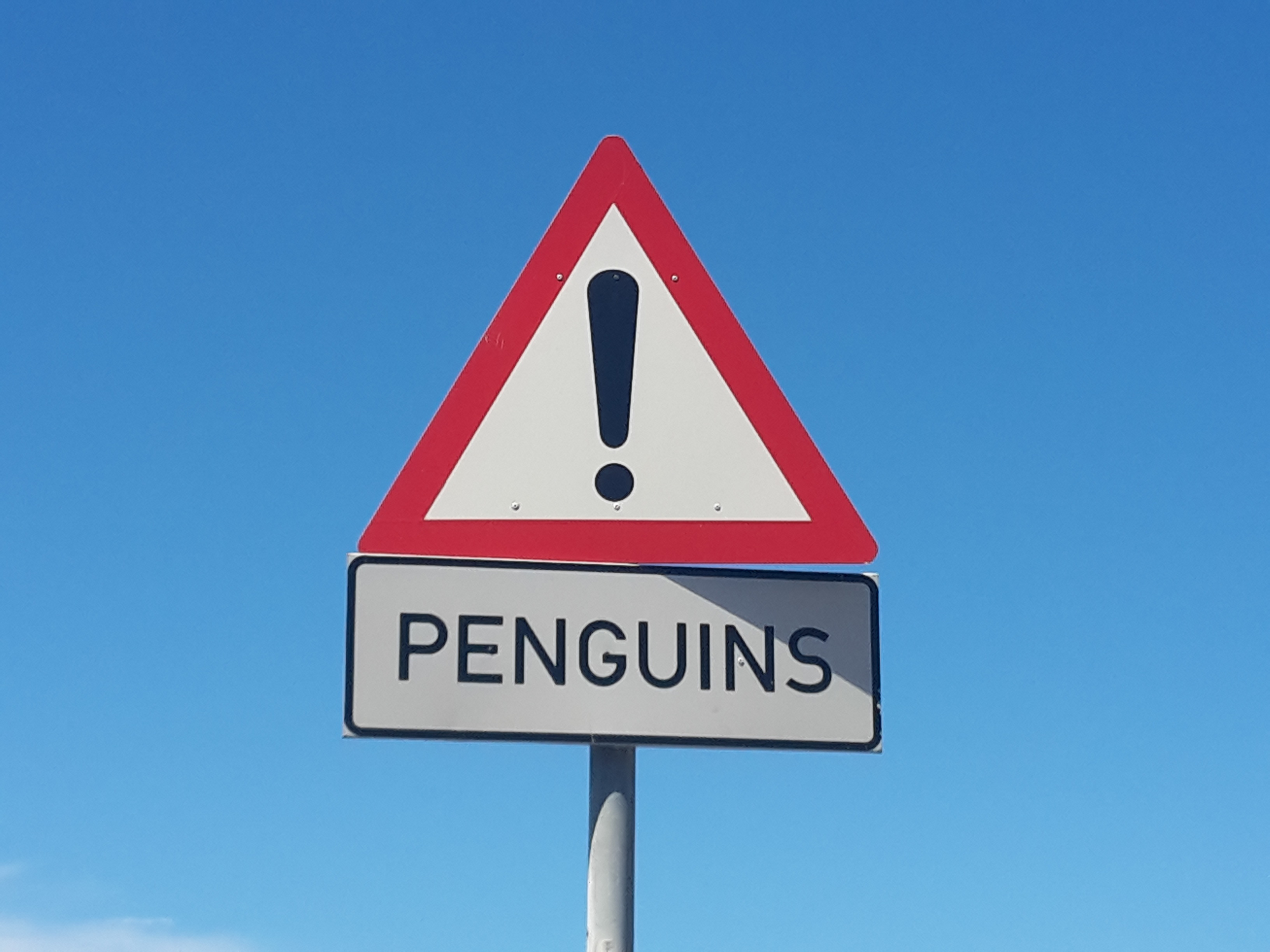 A South African road sign warning of penguins ahead.